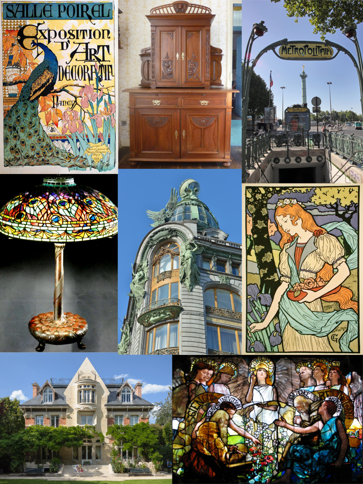 Composition representing Art Nouveau. Pictures used listed in the "Source" section, please click on them to read their description.